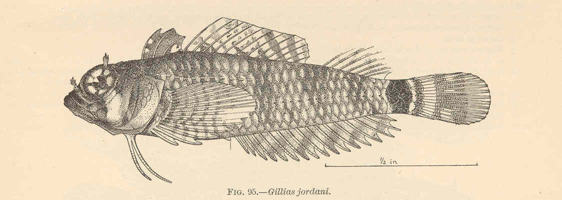 Gillias jordani Evermann & Marsh Subject: Gillias jordani Tag: Fish